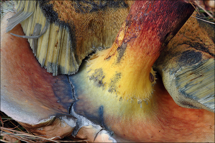 Fruit body of the bolete mushroom Boletus luridus showing its variable coloration, and bluish bruising.